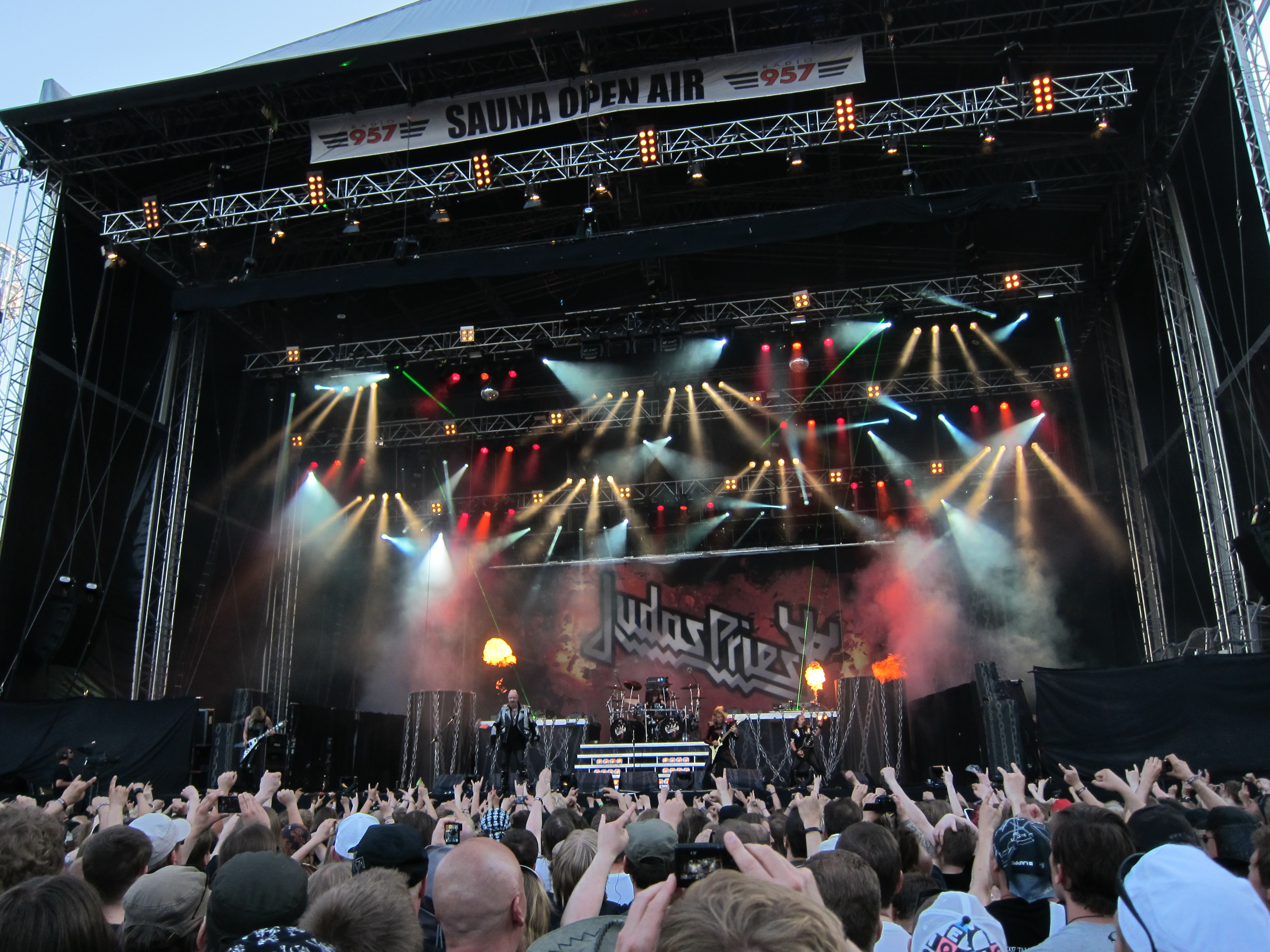 Judas Priest performing at the Sauna Open Air Metal Festival in Tampere, Finland.